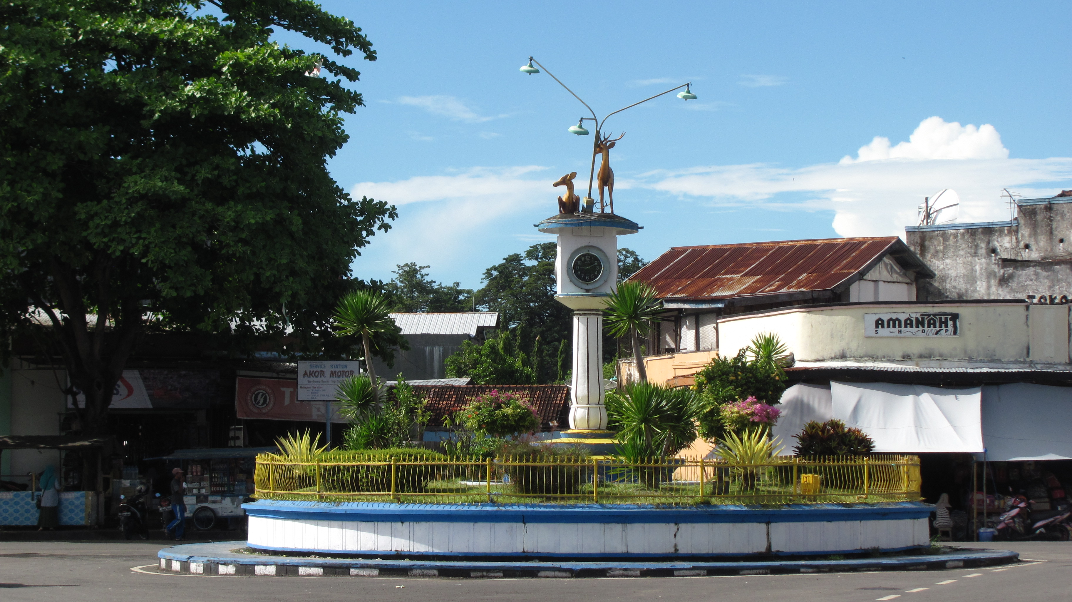 Clock Tower, City of Sumbawa Besar, Sumbawa Island, Indonesia